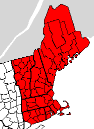 Map of the First District of the Federal Reserve System